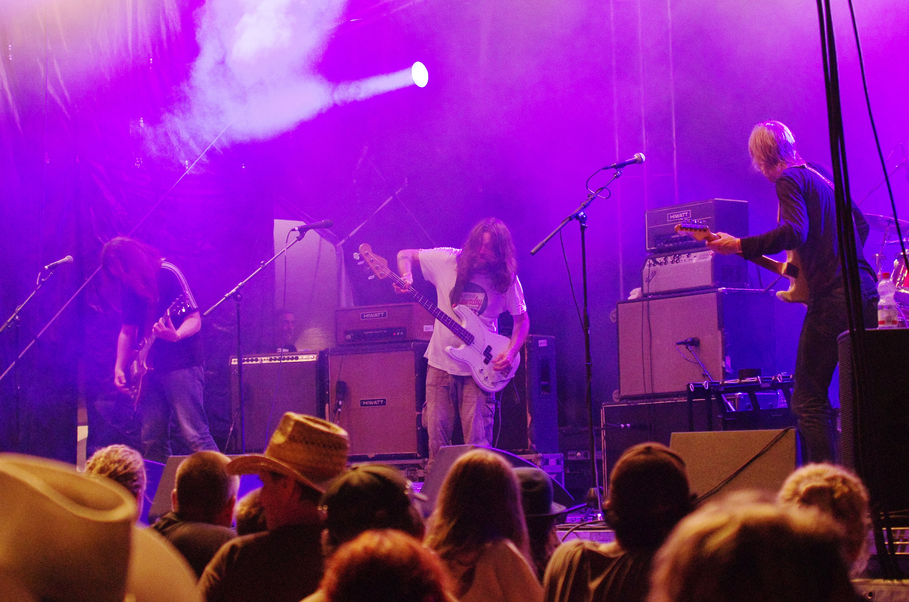 Motorpsycho at Krach am Bach festival in Beelen. Lineup: Bent Sæther (bass/guitar/vocals), Hans Magnus "Snah" Ryan (guitar/vocals), Kenneth Kapstad (drums), Reine Fiske (guitar).